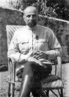 This is the photo of General Giorgi Kvinitadze taken in the final years of the Russian Empire. It is scanned from the 1990 Georgian translation of his Russian memoirs.